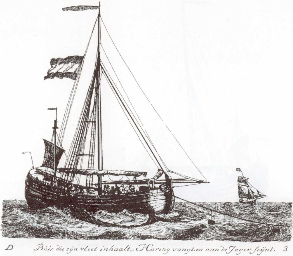 The caption: Buss hauling in its drift nets. Catching herring on the Jager seijnt[?].